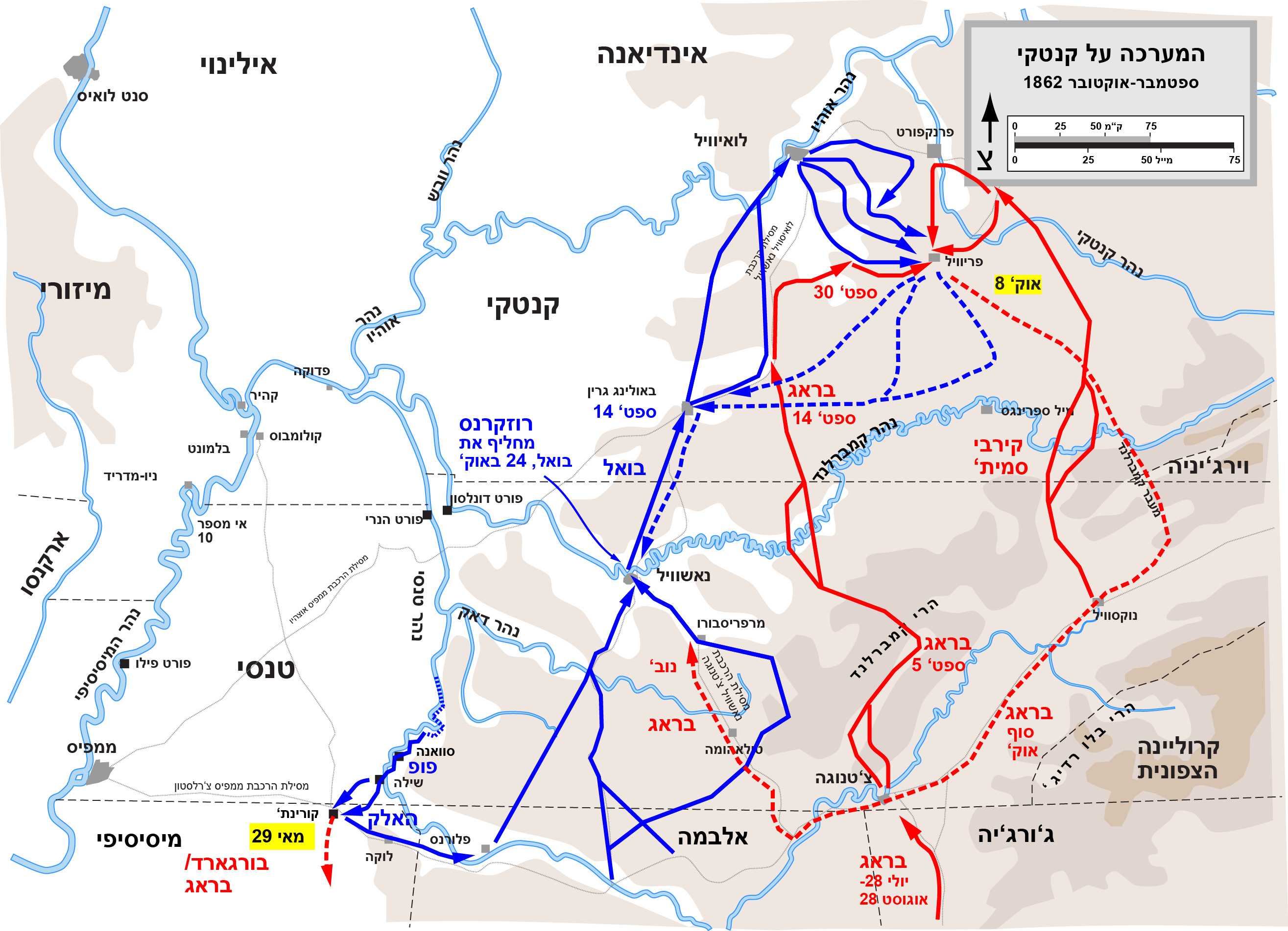 Western Theater of the American Civil War, actions from First Corinth to Perryville. Drawn by Hal Jespersen in Adobe Illustrator CS5. Graphic source file is available at